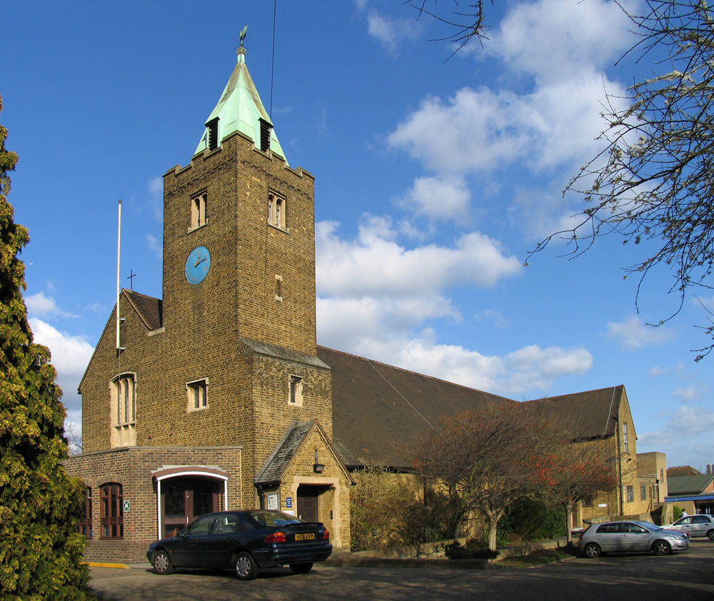 St Peter, Gubbins Lane, Harold Wood